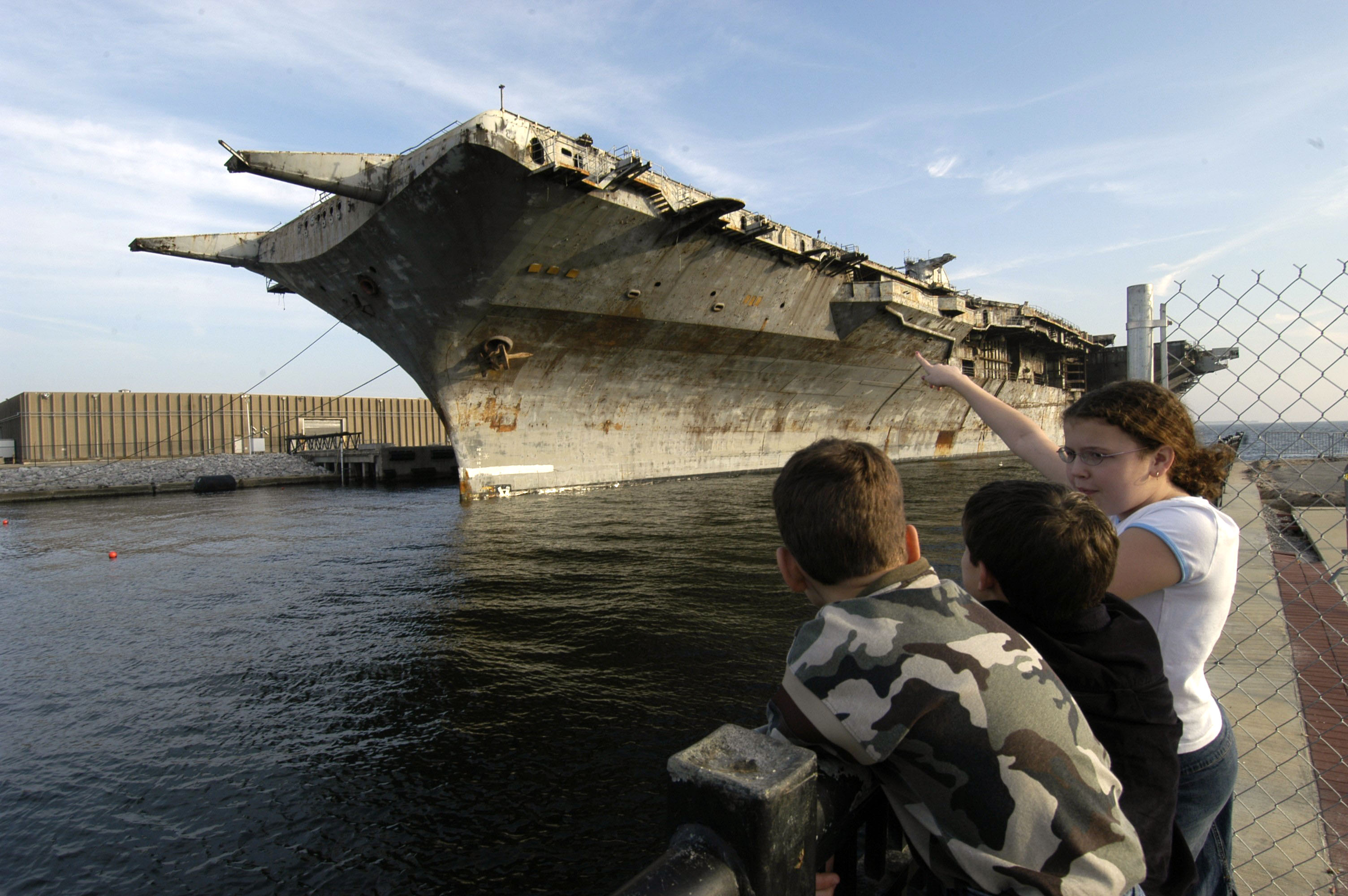 Pensacola, Fla (Jan. 11, 2005) - On lookers watch as the 888-foot decommissioned aircraft carrier Oriskany arrives in Pensacola on Dec. 20, 2004 from Corpus Christi, Texas. Oriskany will be the Navy’s first ship to be sunk under the authority provided under the fiscal year 2004 National Defense Authorization Act (Public Law 108-136) and will be the largest ship sunk as an artificial reef. The Oriskany artificial reef will benefit marine life, commercial and sport fishing and recreational diving off the coast of Florida. The sink date has not been established. U.S. Navy photo by Gary Nichols (RELEASED)